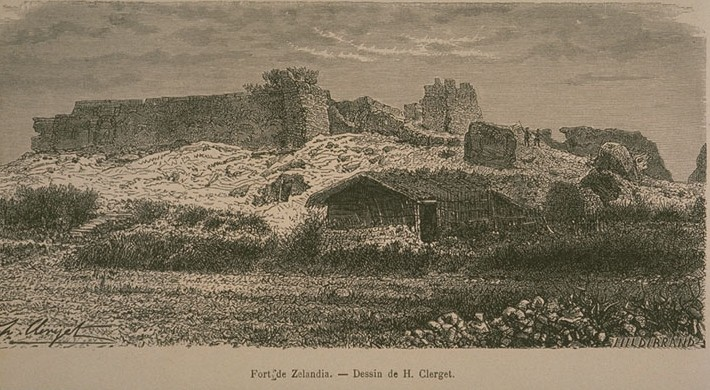 Fort Zelandia (aka Zeelandia) in Tainan, Taiwan.